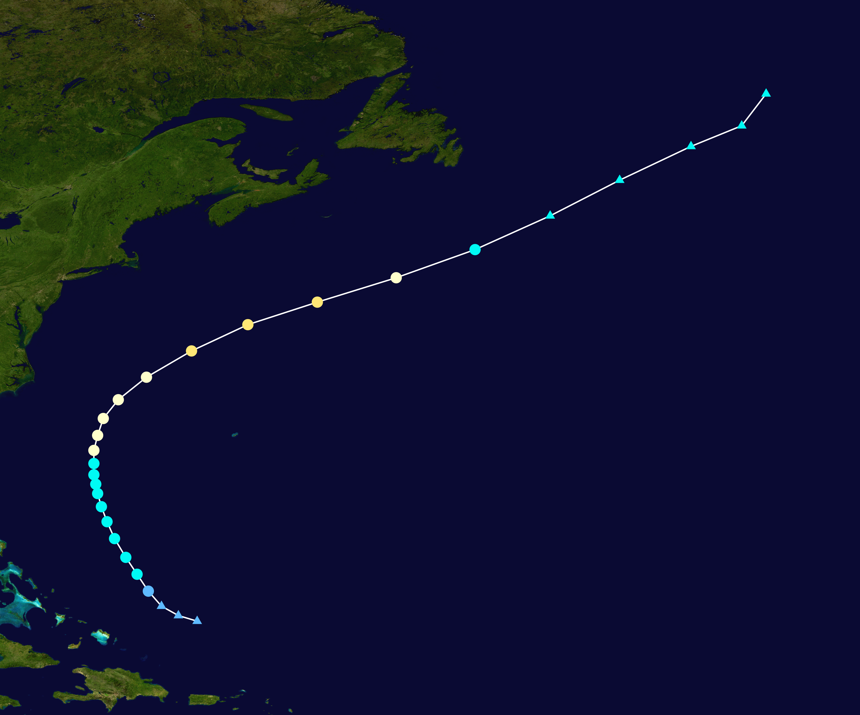 Track map of Hurricane Gert of the 2017 Atlantic hurricane season. The points show the location of the storm at 6-hour intervals. The colour represents the storm's maximum sustained wind speeds as classified in the Saffir–Simpson scale (see below), and the shape of the data points represent the nature of the storm, according to the legend below. Saffir–Simpson scale Tropical depression≤38 mph≤62 km/h Category 3111–129 mph178–208 km/h Tropical storm39–73 mph63–118 km/h Category 4130–156 mph209–251 km/h Category 174–95 mph119–153 km/h Category 5≥157 mph≥252 km/h Category 296–110 mph154–177 km/h Unknown Storm type Tropical cyclone Subtropical cyclone Extratropical cyclone / Remnant low / Tropical disturbance / Monsoon depression